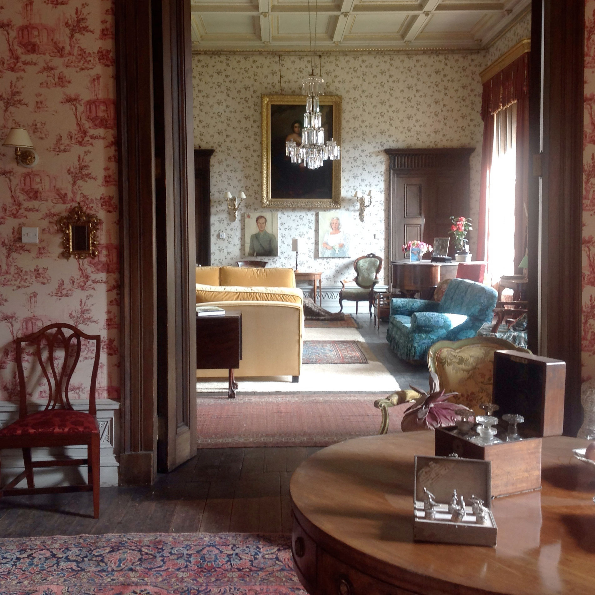 Craigston Castle Drawing Room, Aberdeenshire Scotland